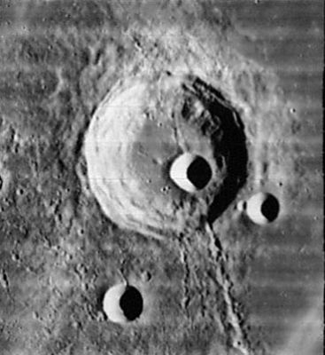 Krafft lunar crater - Luner Orbiter IV 174 H2